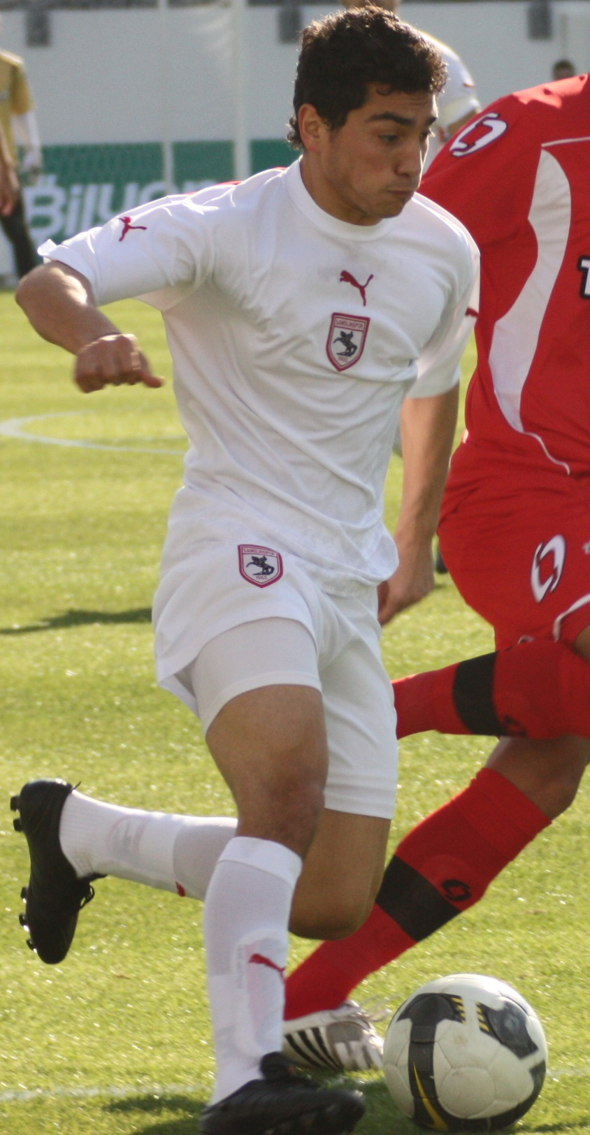 Murat Yildirim playing for Samsunspor